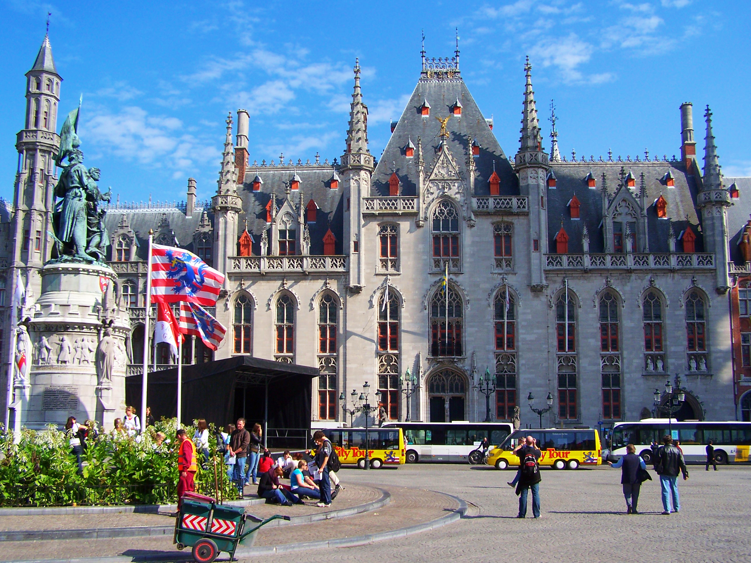 Bruges (Belgium): the Provinciaal Hof (Provincial Palace) on the Market place